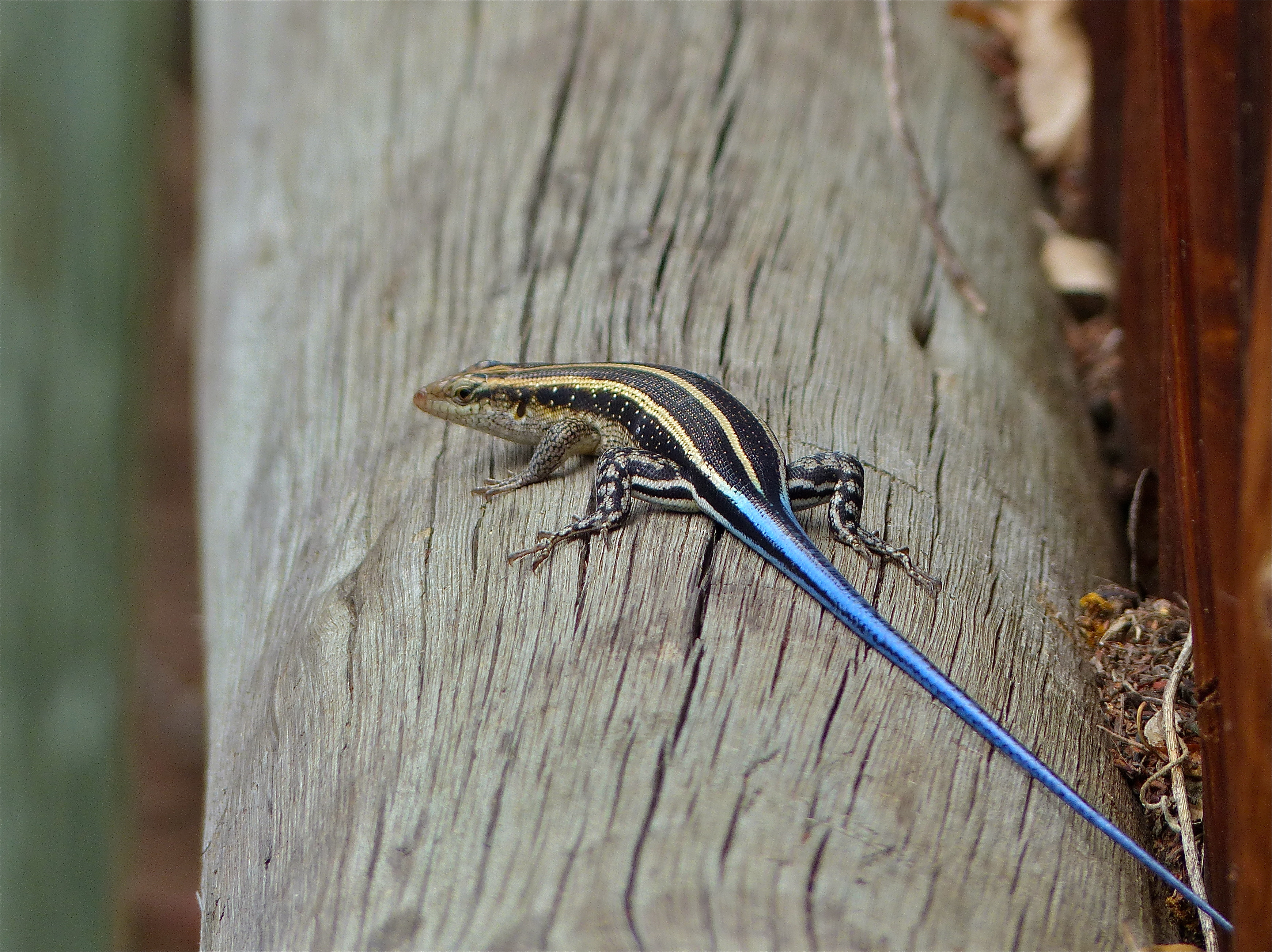 Pioneer Hide, South of Mopani, Kruger NP, SOUTH AFRICA